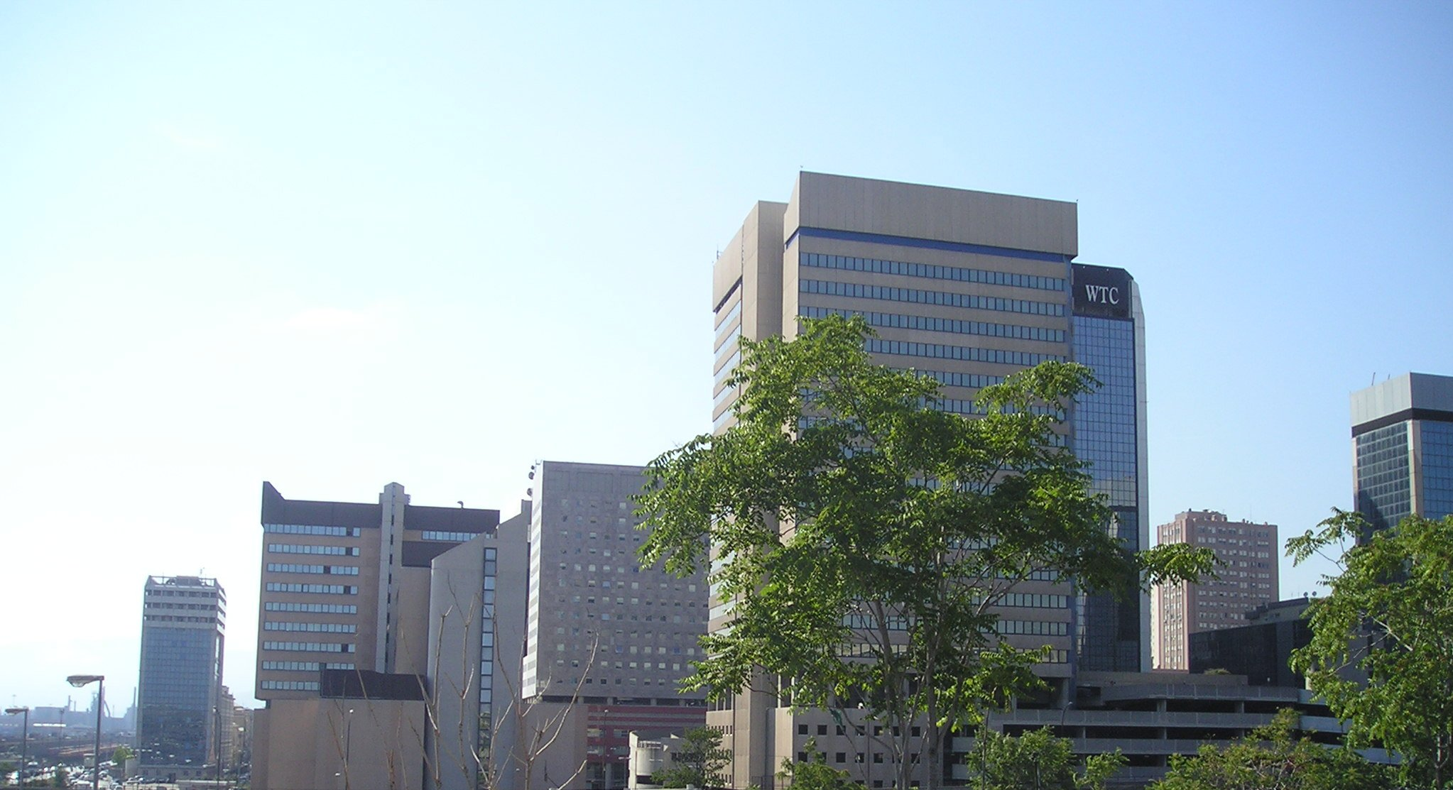 Skyline of WTC area of Genoa